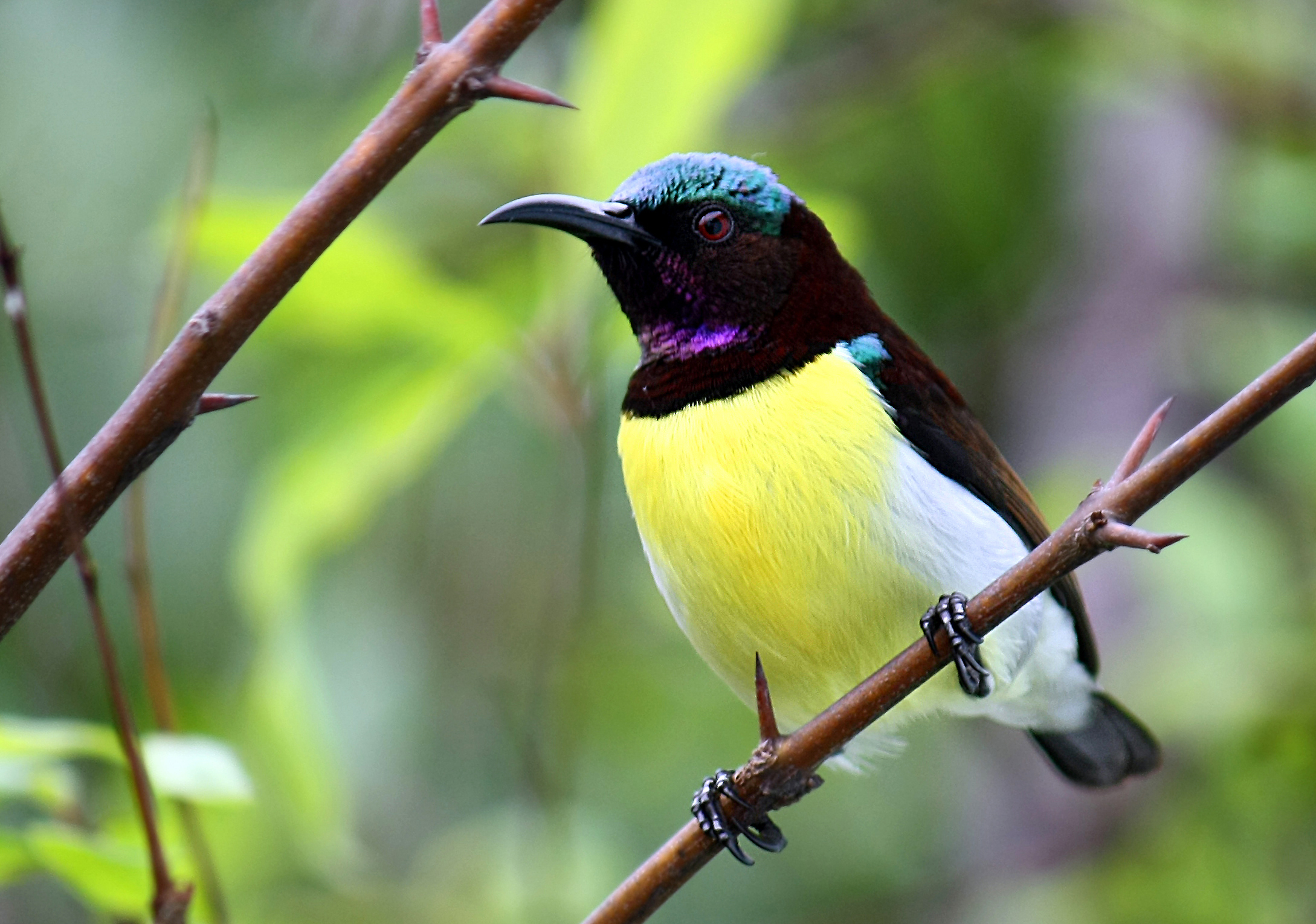 Purple-rumped Sunbird (male)